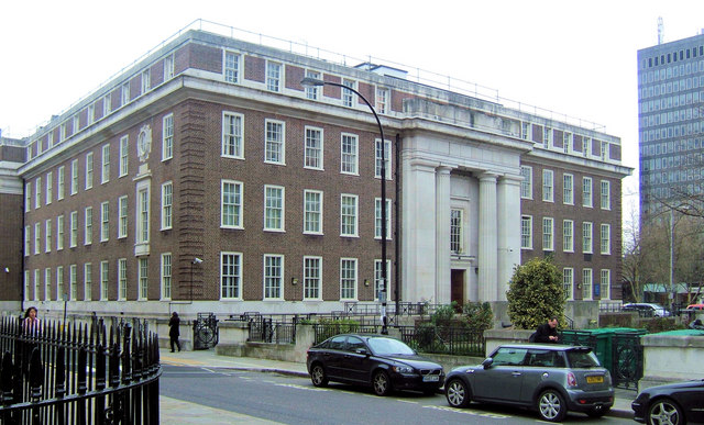 Friends Meeting House, Euston from Endsleigh Gardens, London WC1